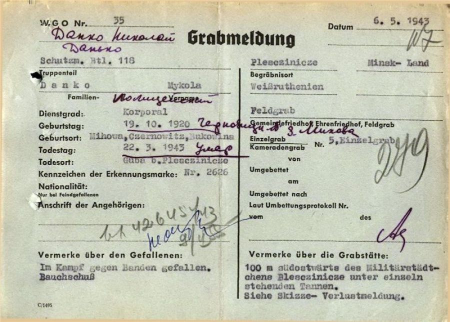 The death certificate of Nikolai Danko, an ordinary of the Ukrainian 118th Schutzmannschaft Battalion. Killed by partisans on March 22, 1943 in Belarus, on the road Logoysk-Pleschenitsy, along with Hans Wolke and another policeman. This became the prologue to the massacres in Khatyn.